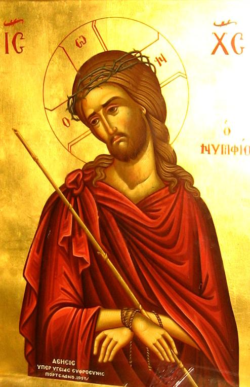 A fragment of the photo taken from the page